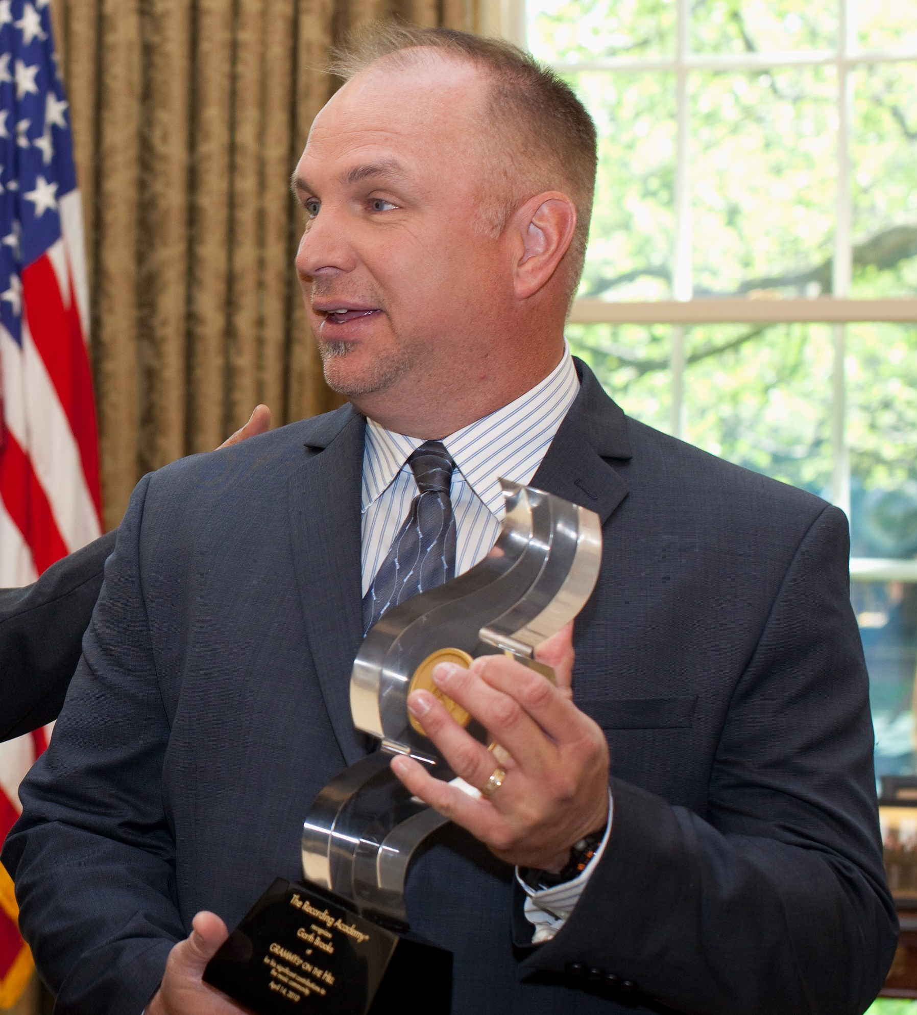 Garth Brooks in the Oval Office on April 14, 2010.